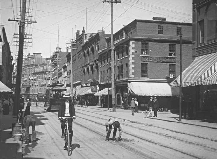 Sparks Street looking east, Ottawa, Canada.